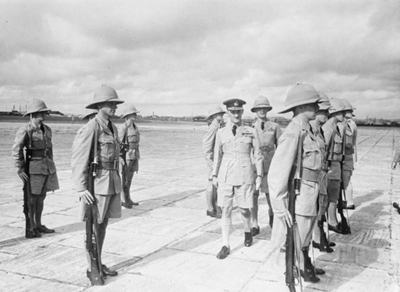 Royal Air Force Operations in the Far East, 1941-1945. Air Vice Marshal C V H Pulford, Air Officer Commanding RAF Far East, inspects trainees of the Malayan Volunteer Air Force at Sembawang, Singapore.